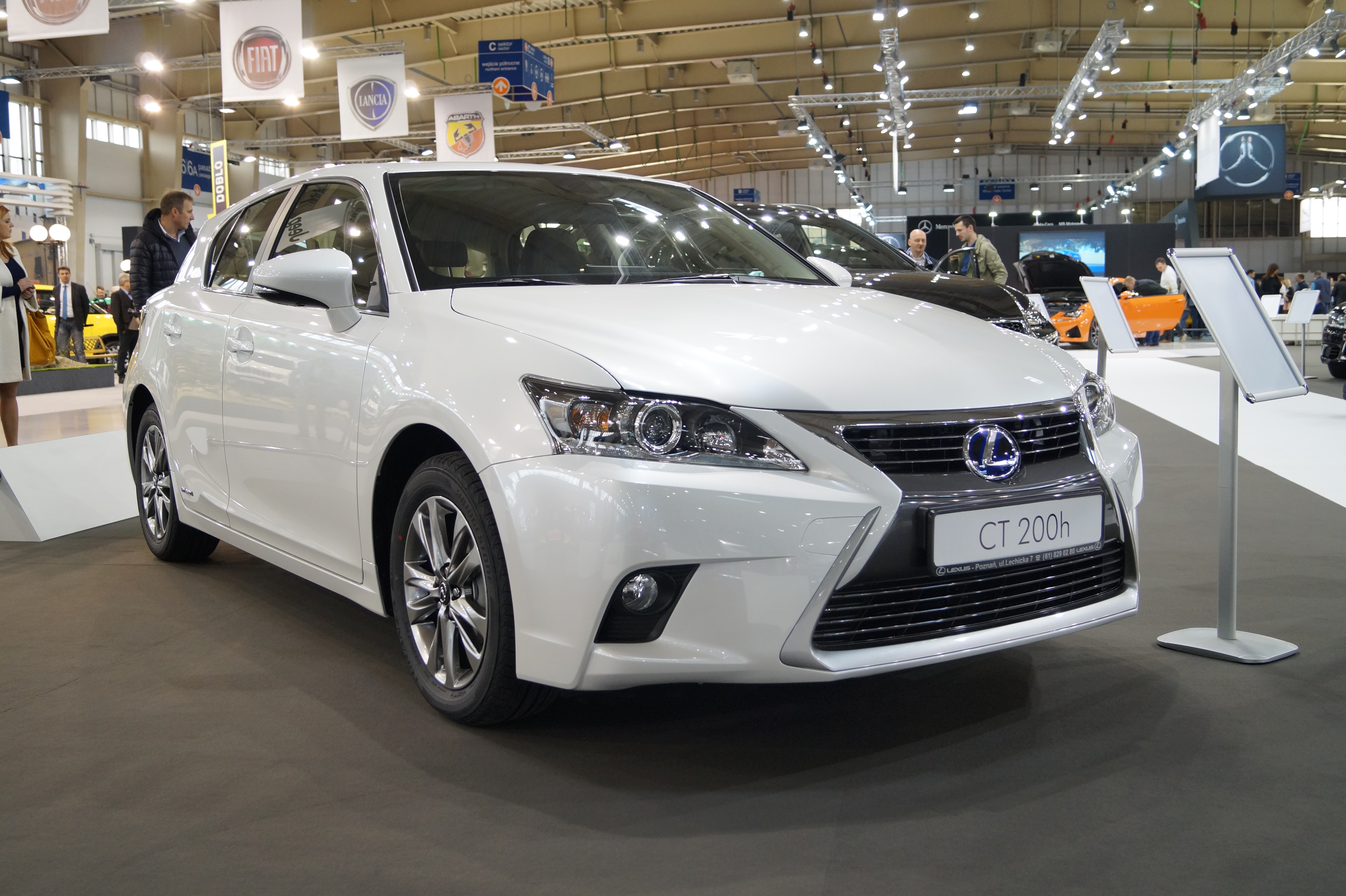 The making of this document was supported by Wikimedia Polska Association, within Wikigrant no. WG 2015-19. Przód Lexusa CT 200h na Motor Show Poznań 2015